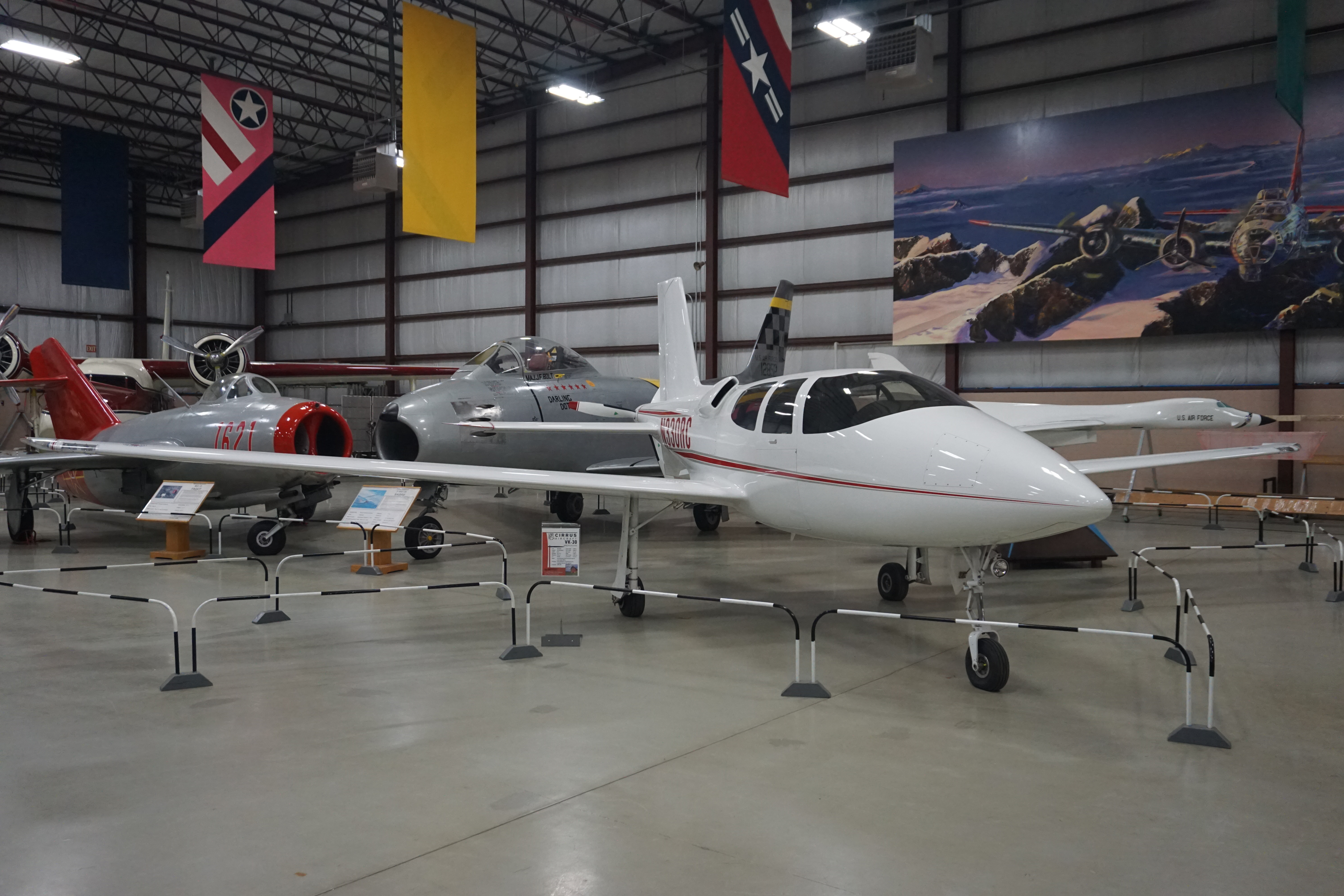 A Cirrus VK-30 on display at the Air Zoo at Kalamazoo/Battle Creek International Airport in Portage, Michigan (United States).